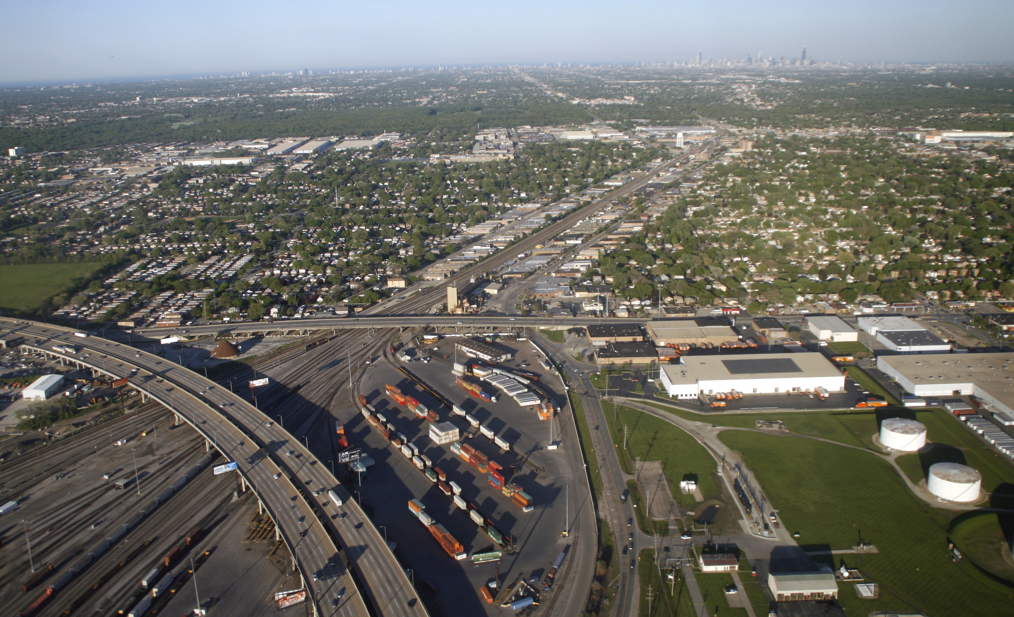 Highway 294 crosses Bensenville Yard. 294 is also the Tri State Tollway. Looking east. The Chicago skyline is in the distance.